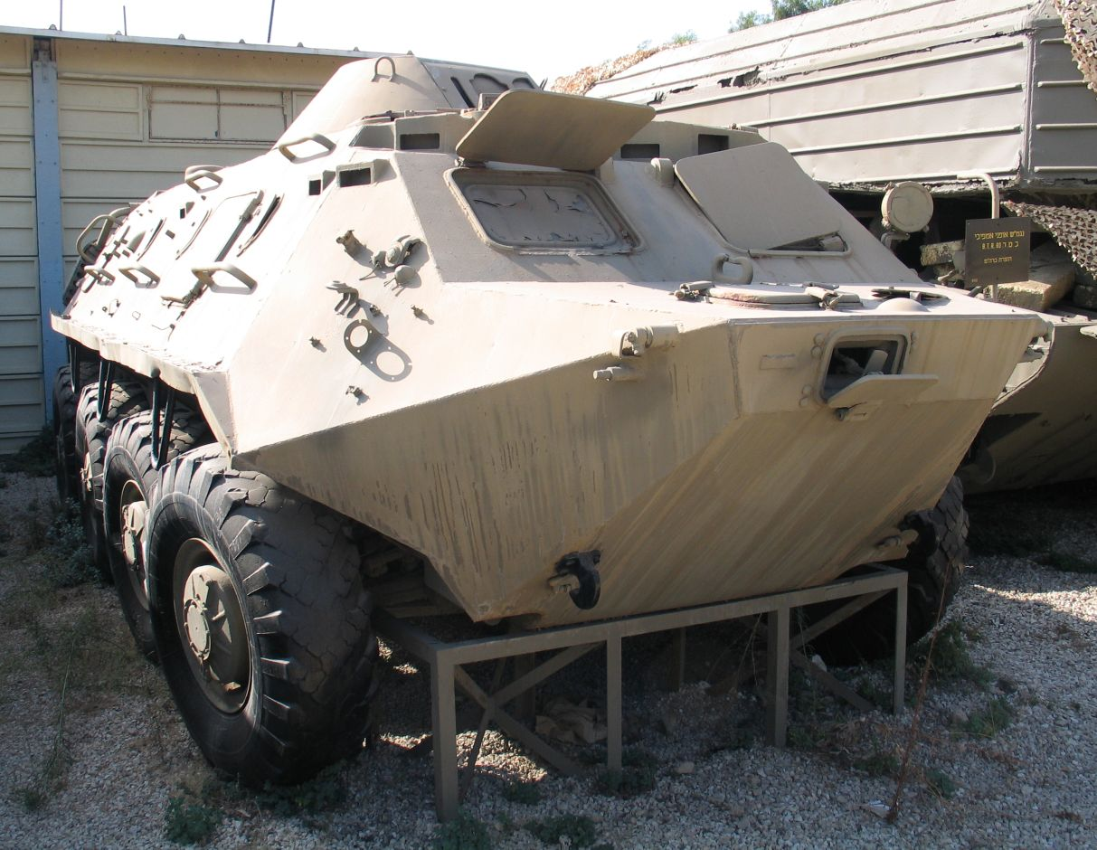 Description: BTR-60 in Batey ha-Osef museum, Tel Aviv, Israel. 2005. Source: Photo by me, User:Bukvoed.